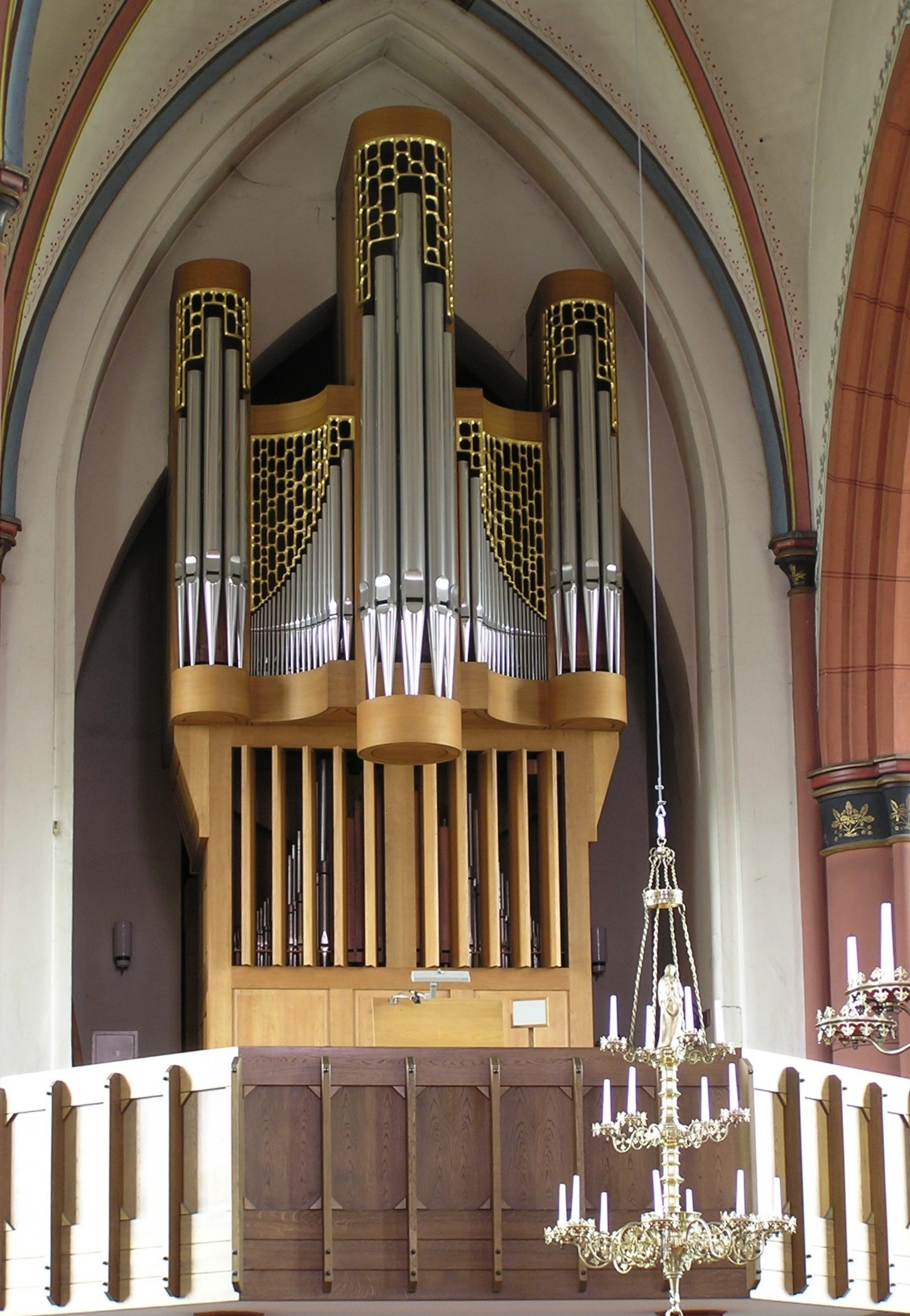 Klais-organ in Kleve, Germany